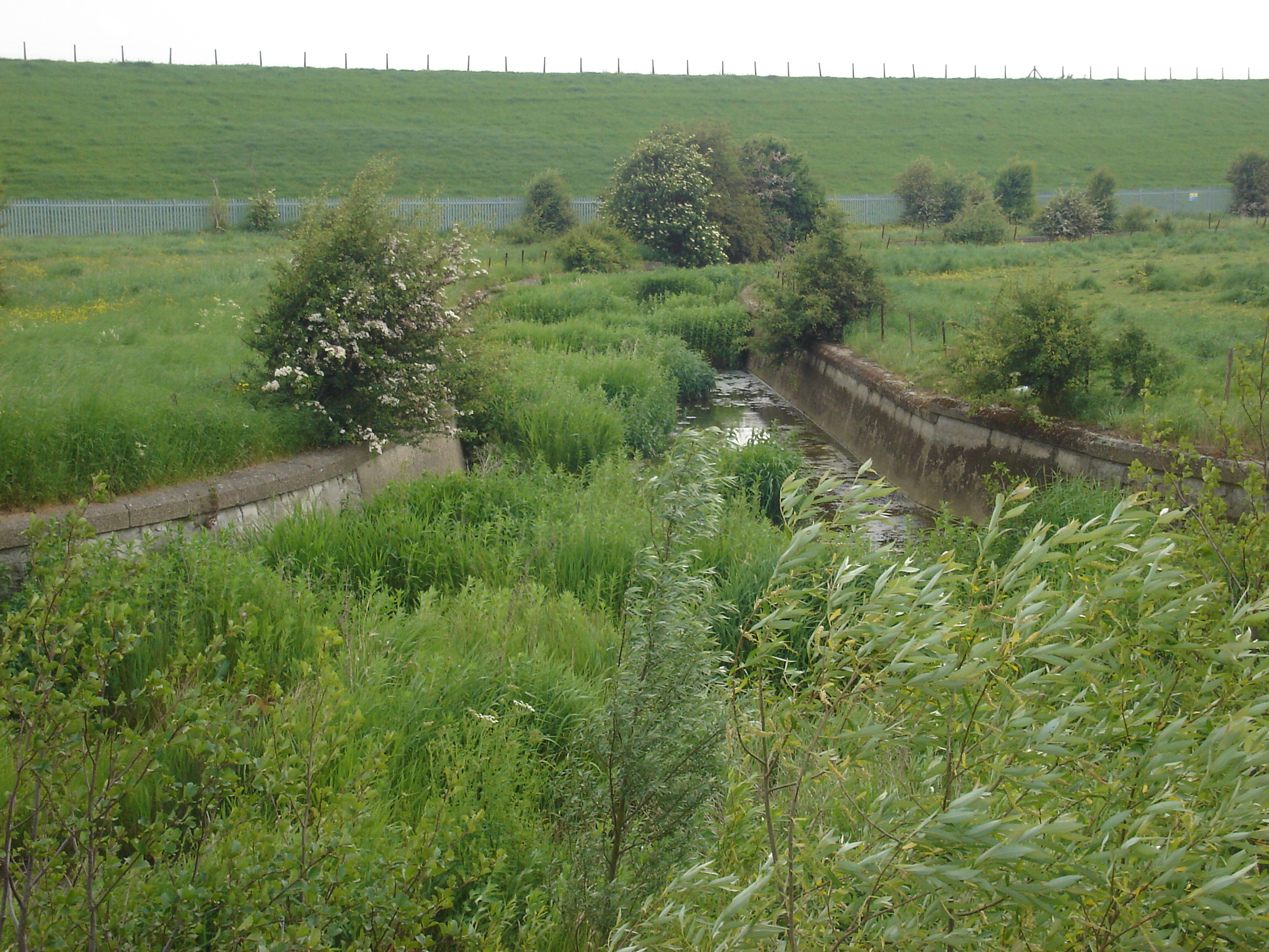 South Marsh, Ponders End. The grassed embankment of the King George V reservoir can be seen in the background